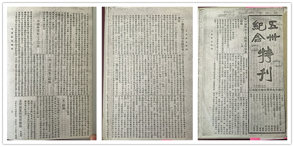 Liang Yizhen, literary works 1. From China's diplomatic history, we observe the symptoms of the May 30 tragedy.